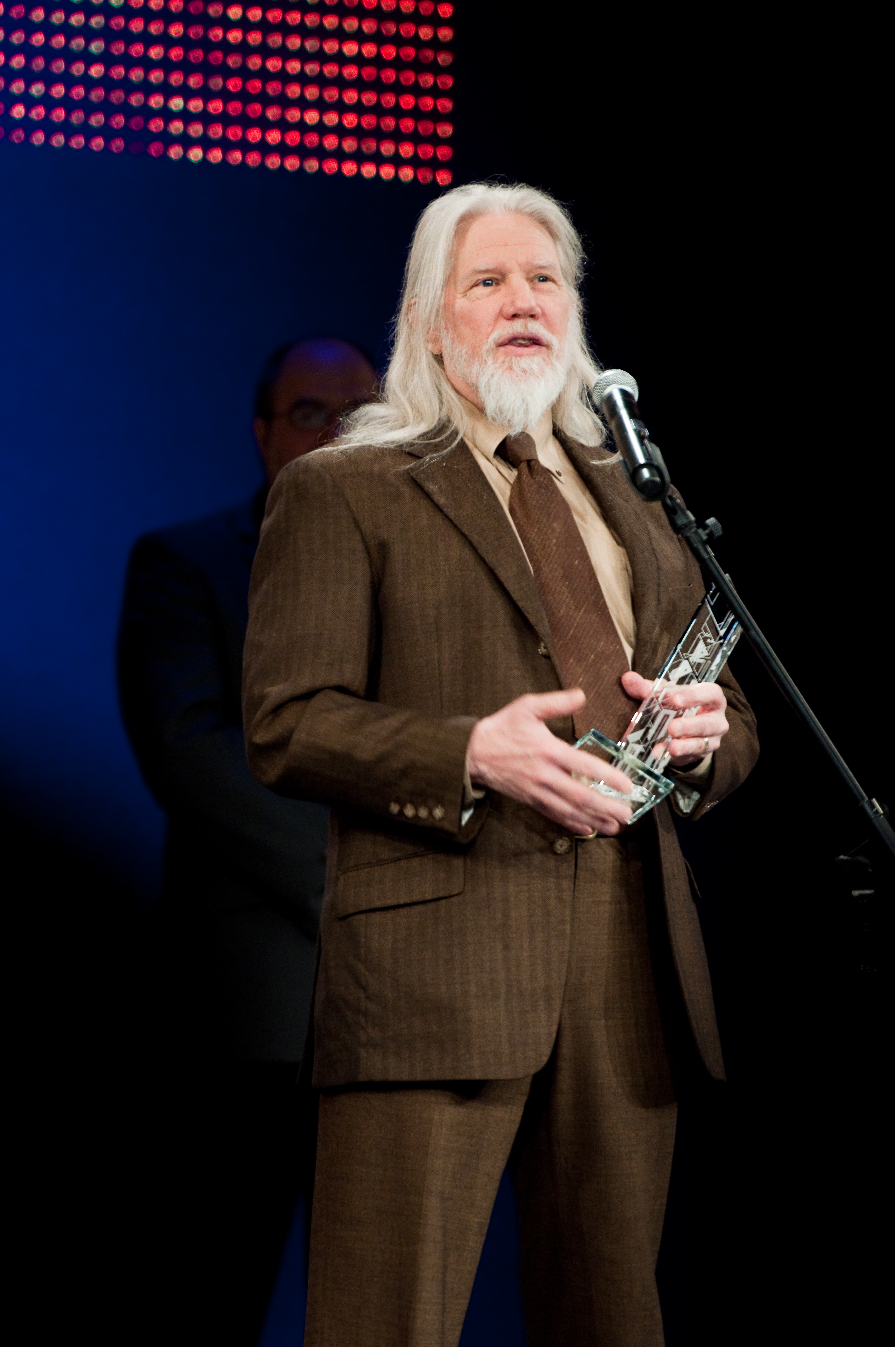 Whit Diffie receiving the lifetime achievement award at the 2010 RSA conference